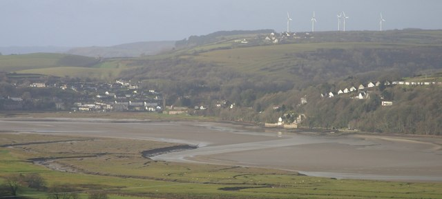 Laugharne viewed across the Taf estuary Dylan Thomas' boat house is the white gable ended building behind sea walls just right of centre.